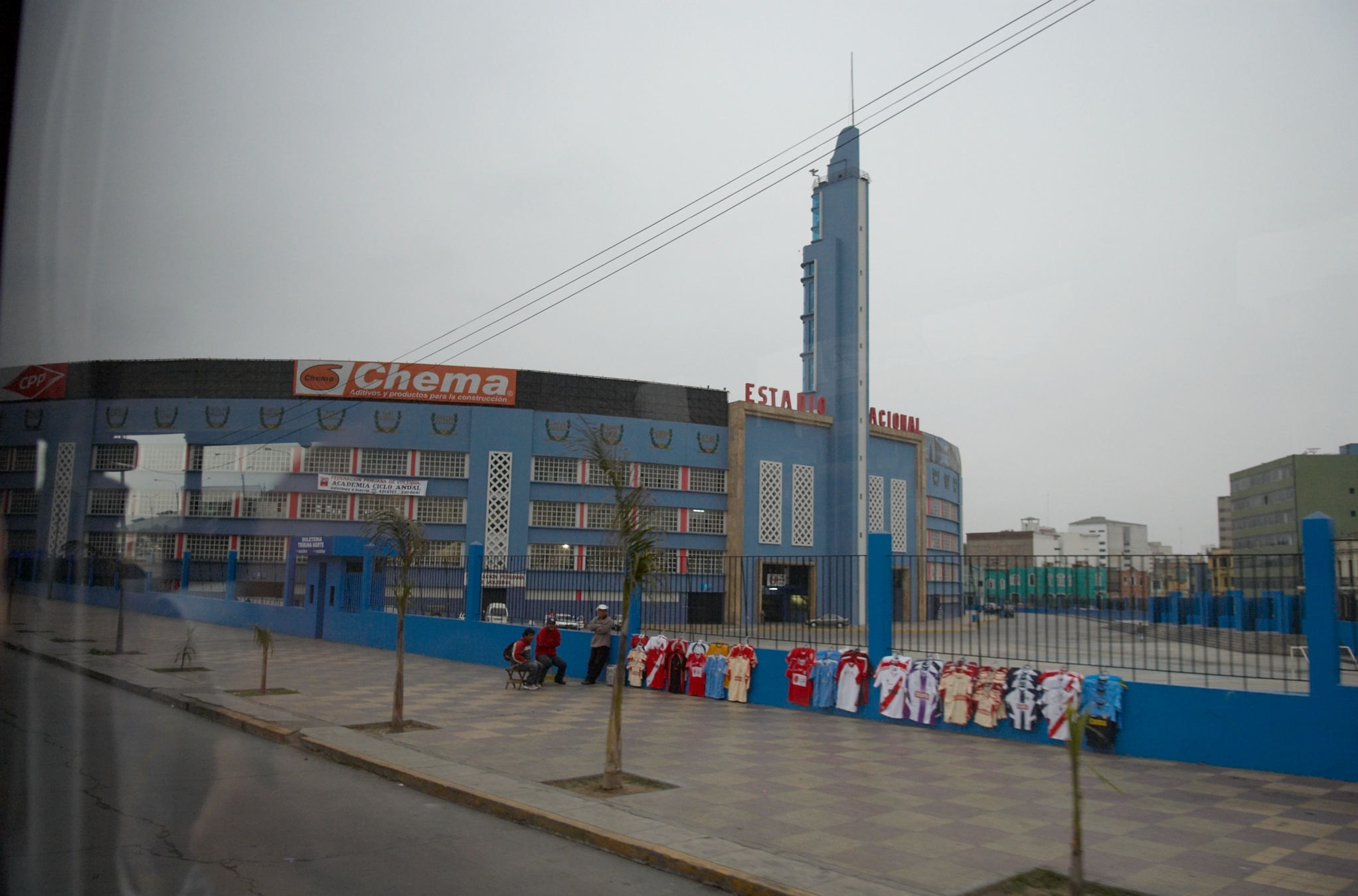 The "Classic of Classics" game is a much anticipated annual game filled with die-hard Peruvian fútbol fans - the rival teams are Universitario de Deportes and Alianza Lima.